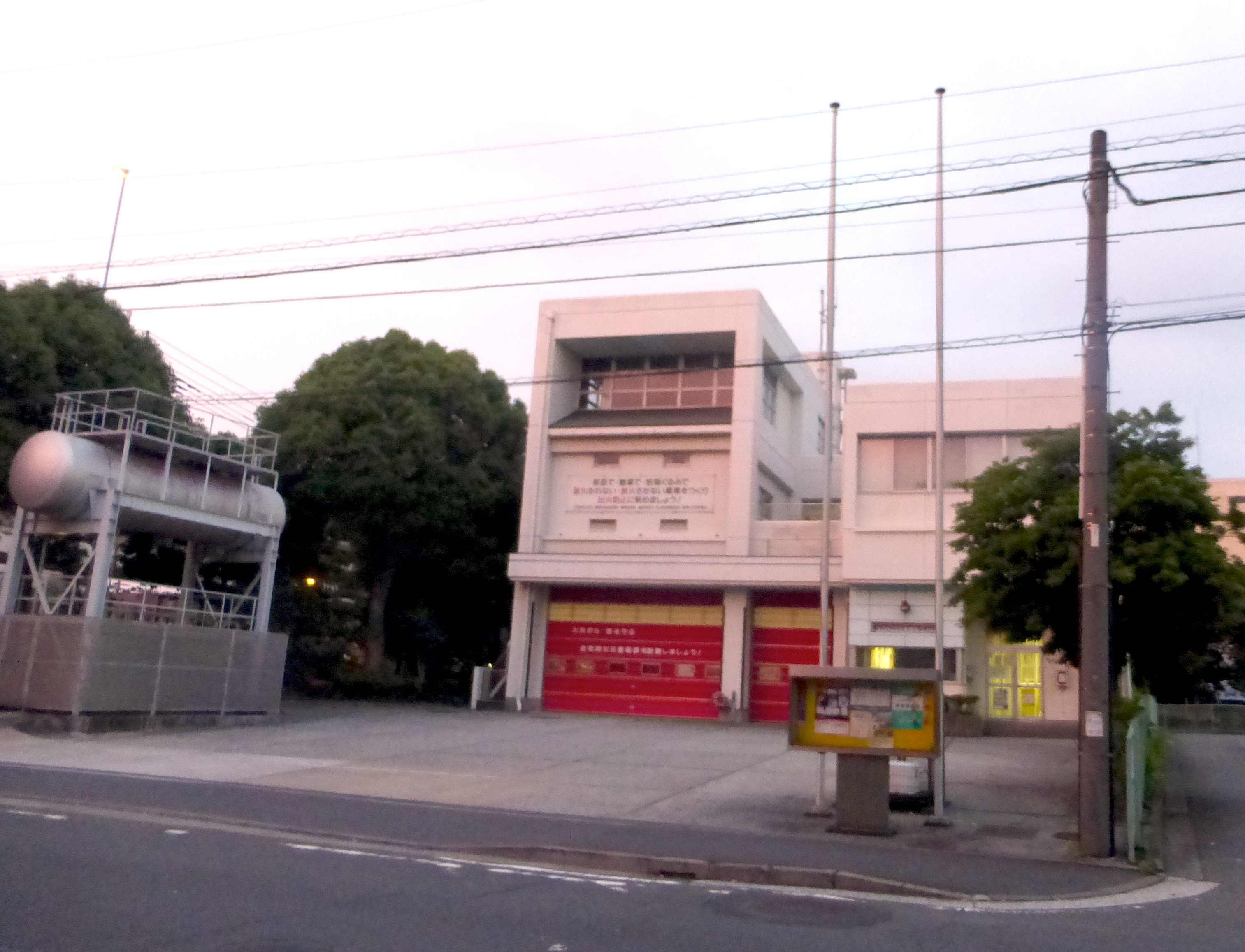 鶴見消防署入船消防出張所 (Irifune branch fire department building)